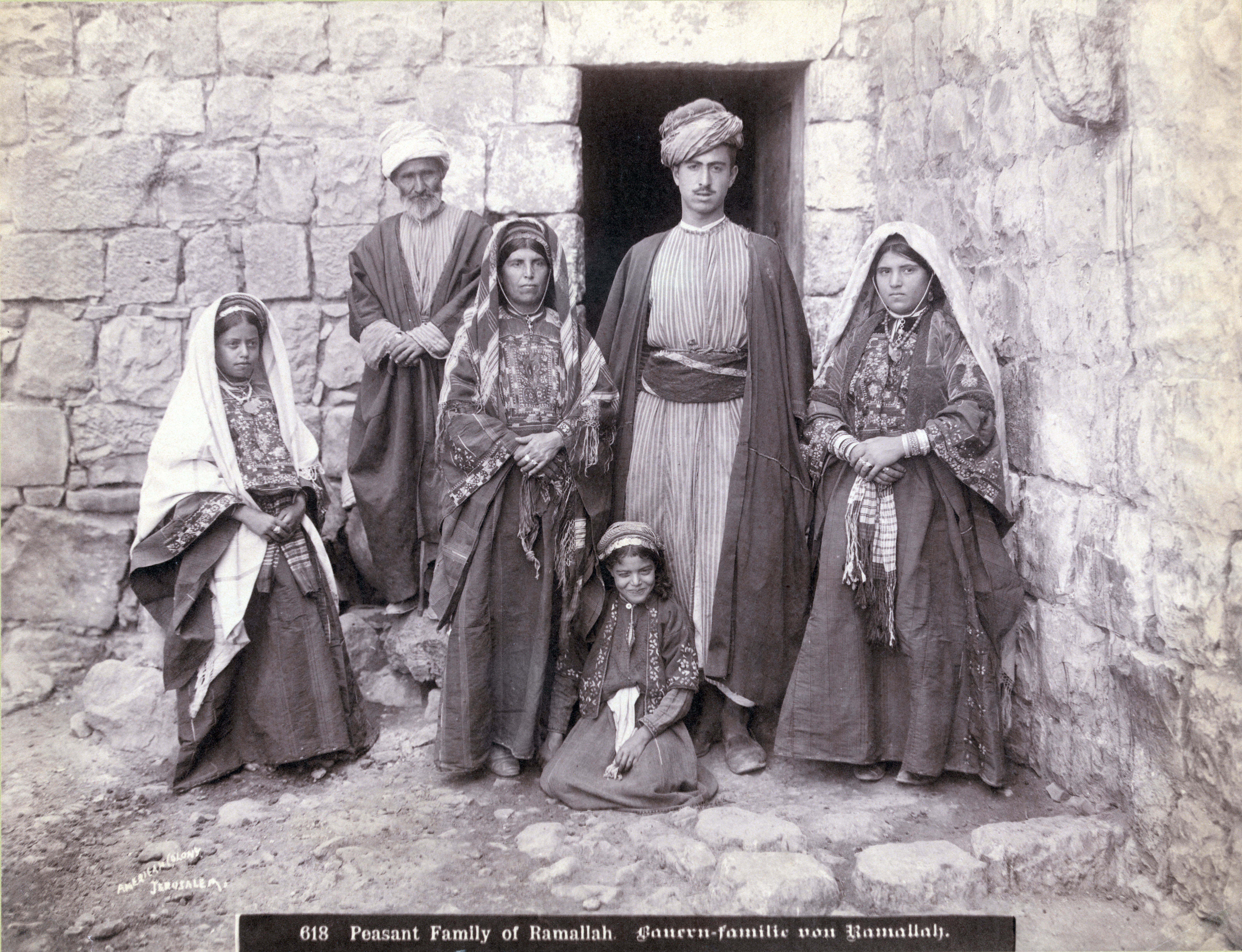 Peasant family of Ramallah. Bauern-familie von Ramallah / American Colony, Jerusalem.